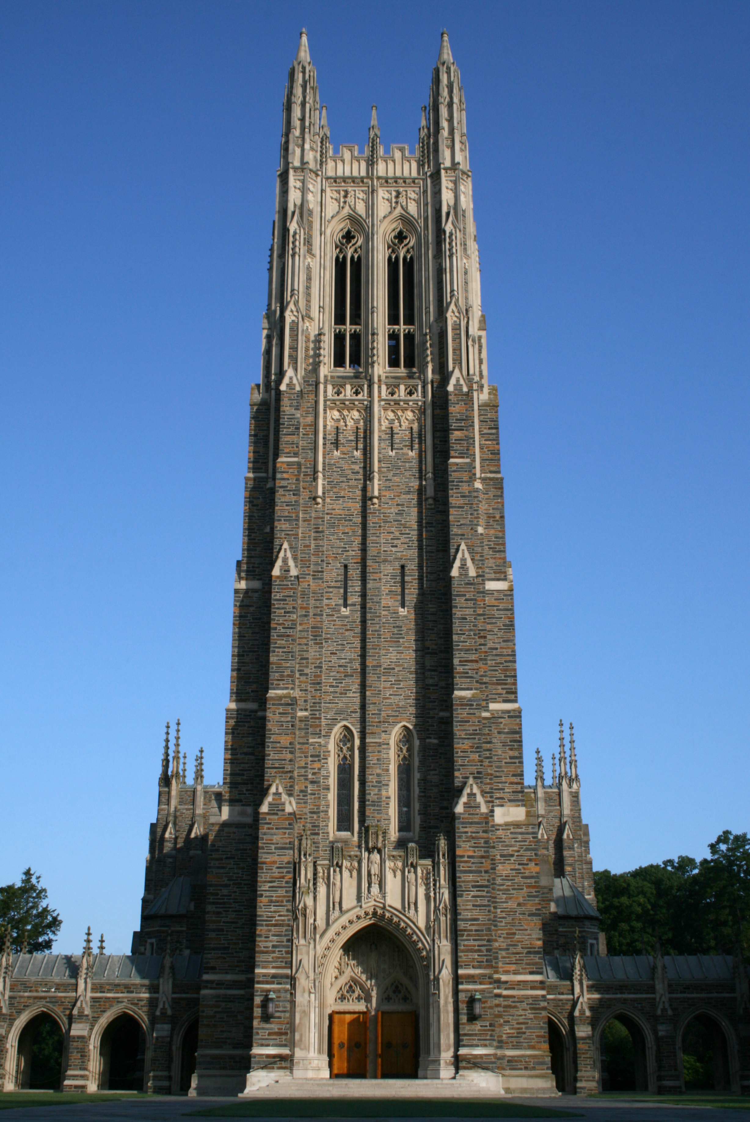 The Duke Chapel tower — at Duke University in Durham, North Carolina.Designed in the Gothic Revival style, by African American architect Julian Abele, chief designer of the Horace Trumbauer Office.